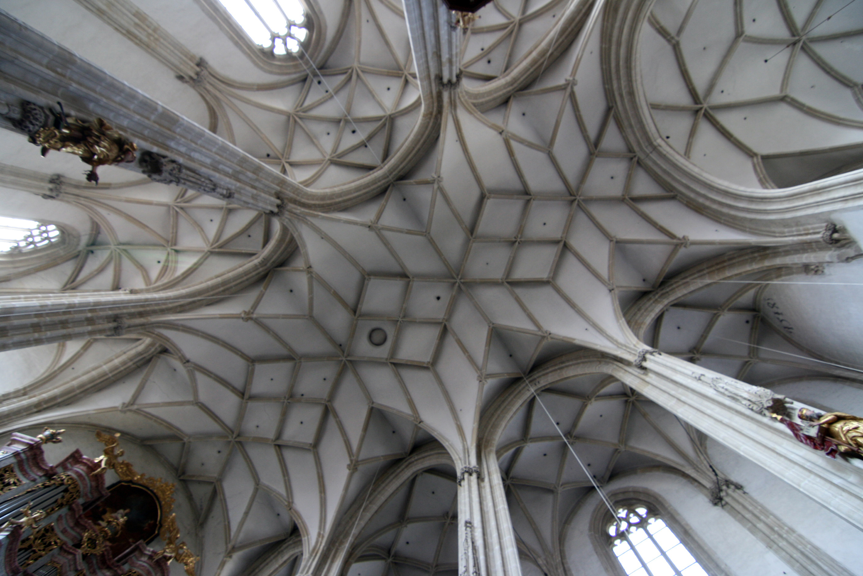 Gothic vaults in the Piaristen church "Unsere Liebe Frau" in Krems